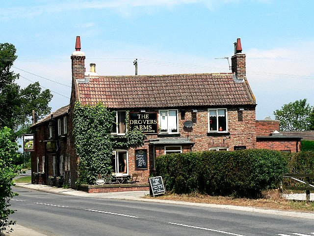 The Drovers' Arms, York Road, Skipwith.